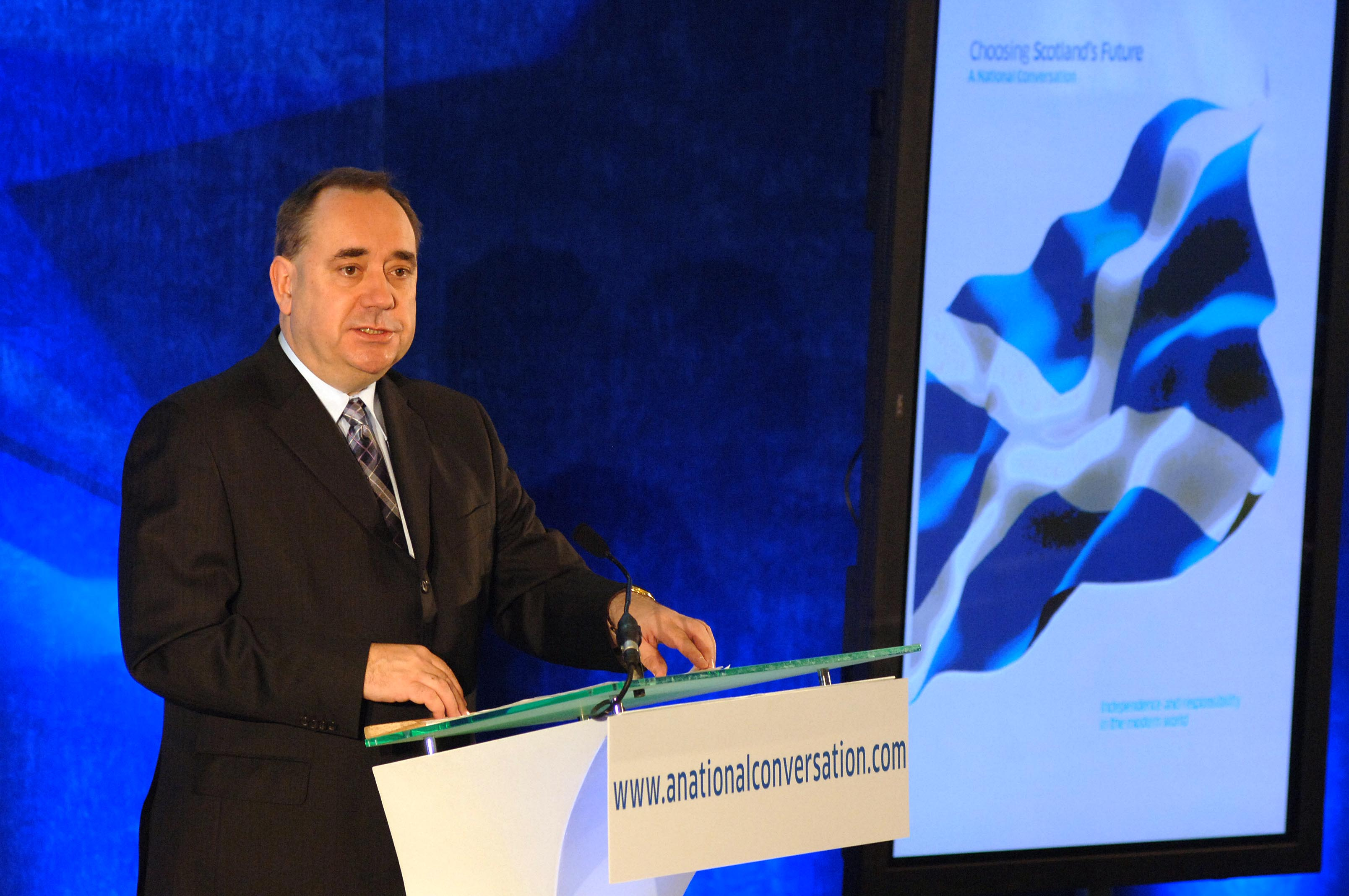 First Minister Alex Salmond speaks at the launch of A National Conversation August 14, 2007